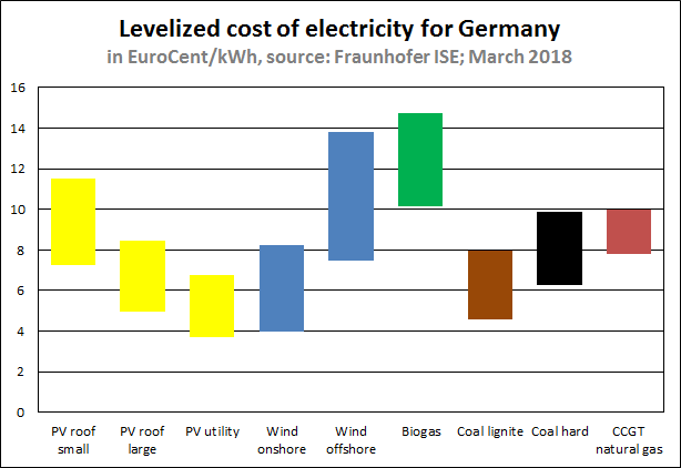 Levelized cost of electricity generation for Germany in EuroCent/kWh, source: Fraunhofer ISE, March 2018